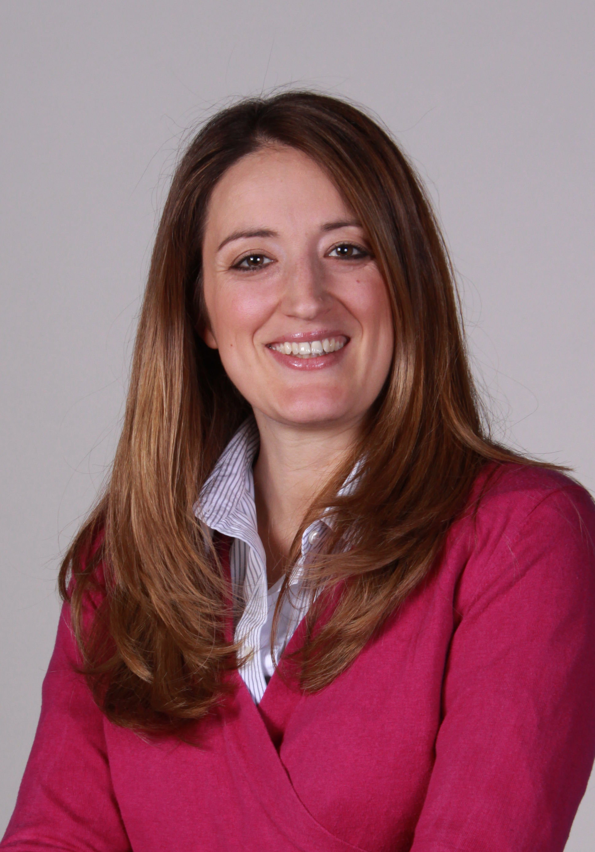 Roberta Metsola, Member of the European Parliament